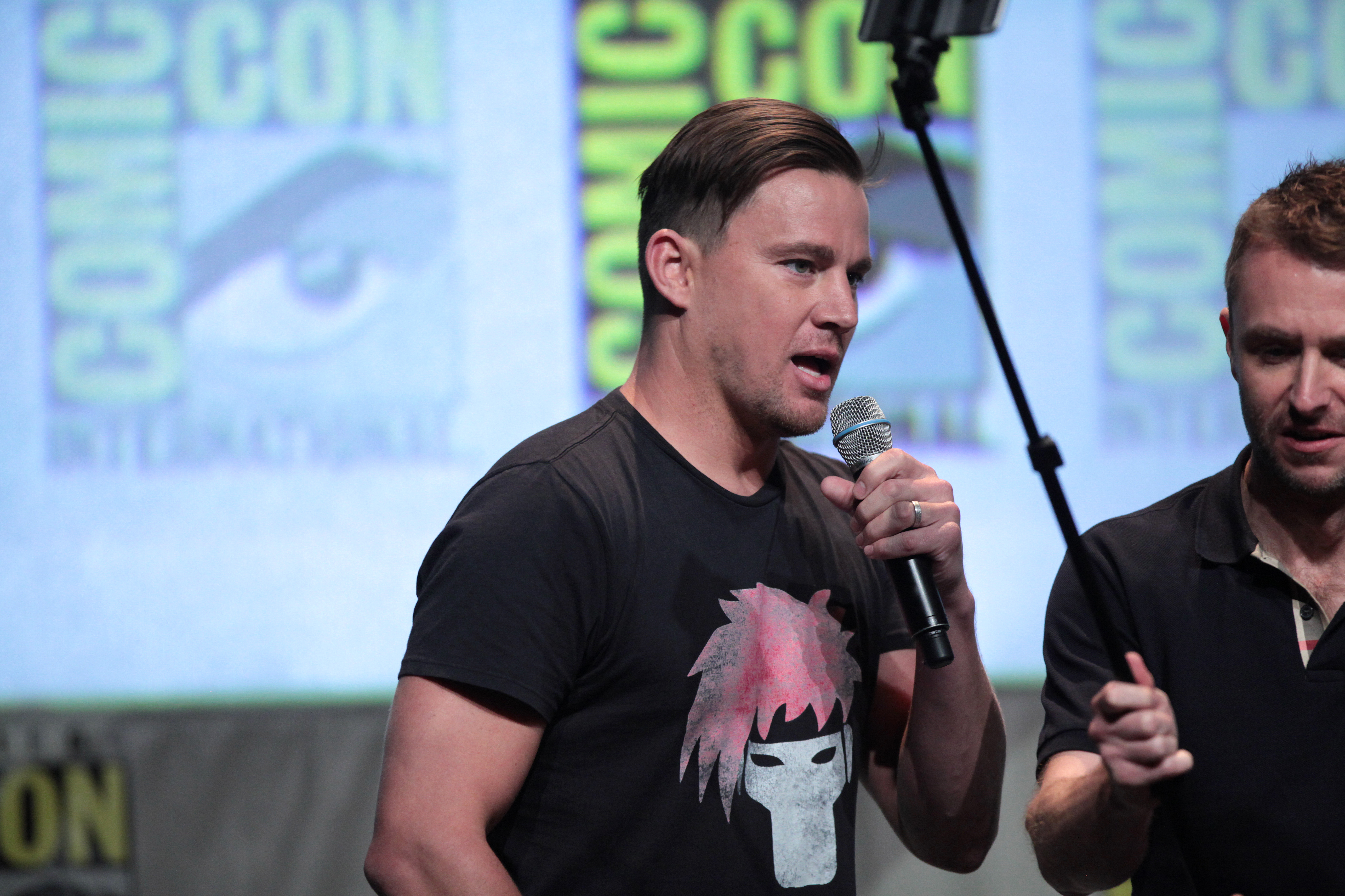 Channing Tatum speaking at the 2015 San Diego Comic Con International at the San Diego Convention Center in San Diego, California.